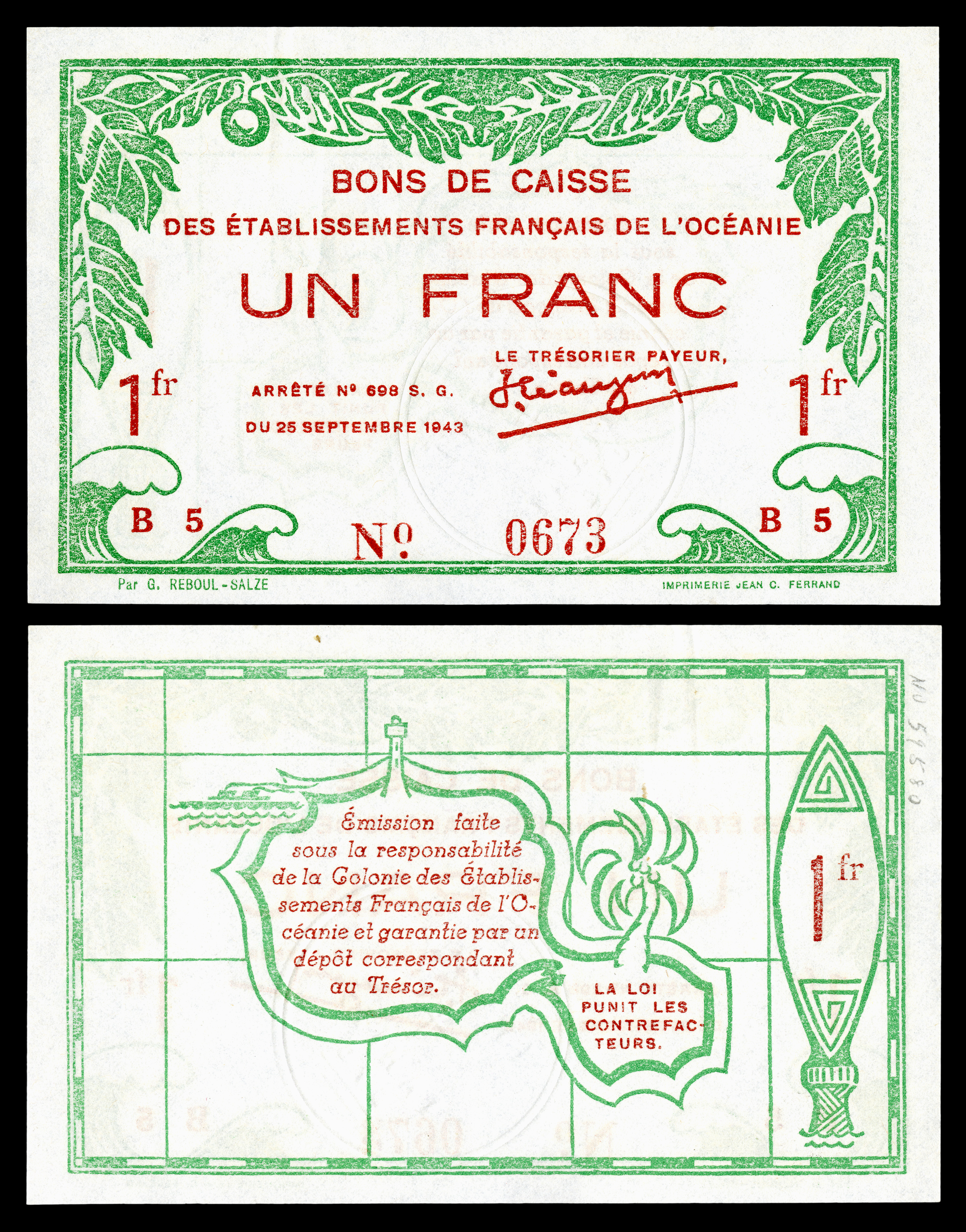 French Oceania, WWII emergency issue currency, 1 franc (1943). The note was printed in Papeete for use in the colony of French Oceania. The note bears the facsimile signature of Jean-Henri Liauzun and measures 111 x 71mm.